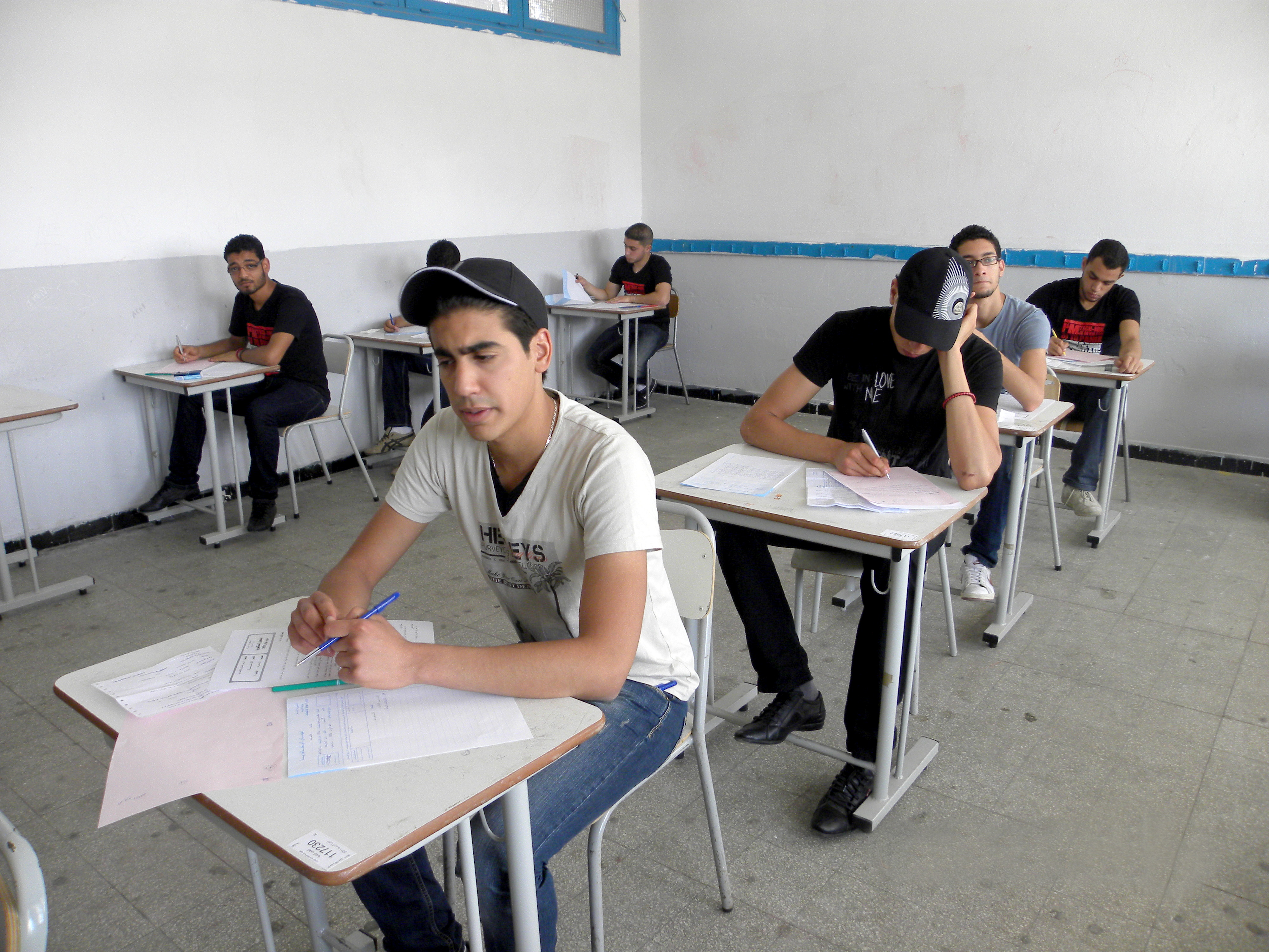 Candidates in an aptitude exam in Tunisia.